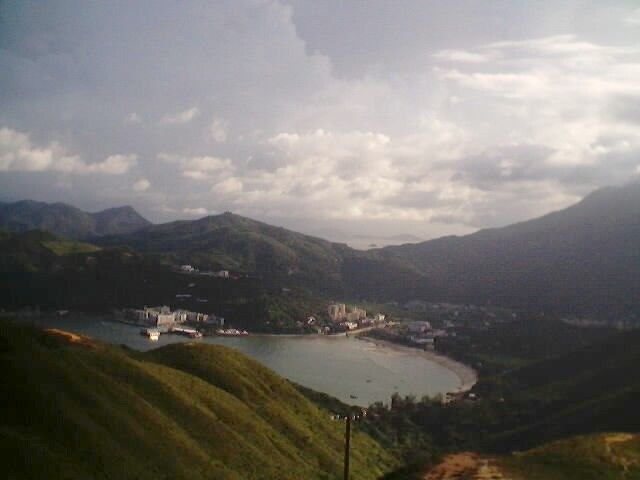 Mui Wo, from the hills to the north.